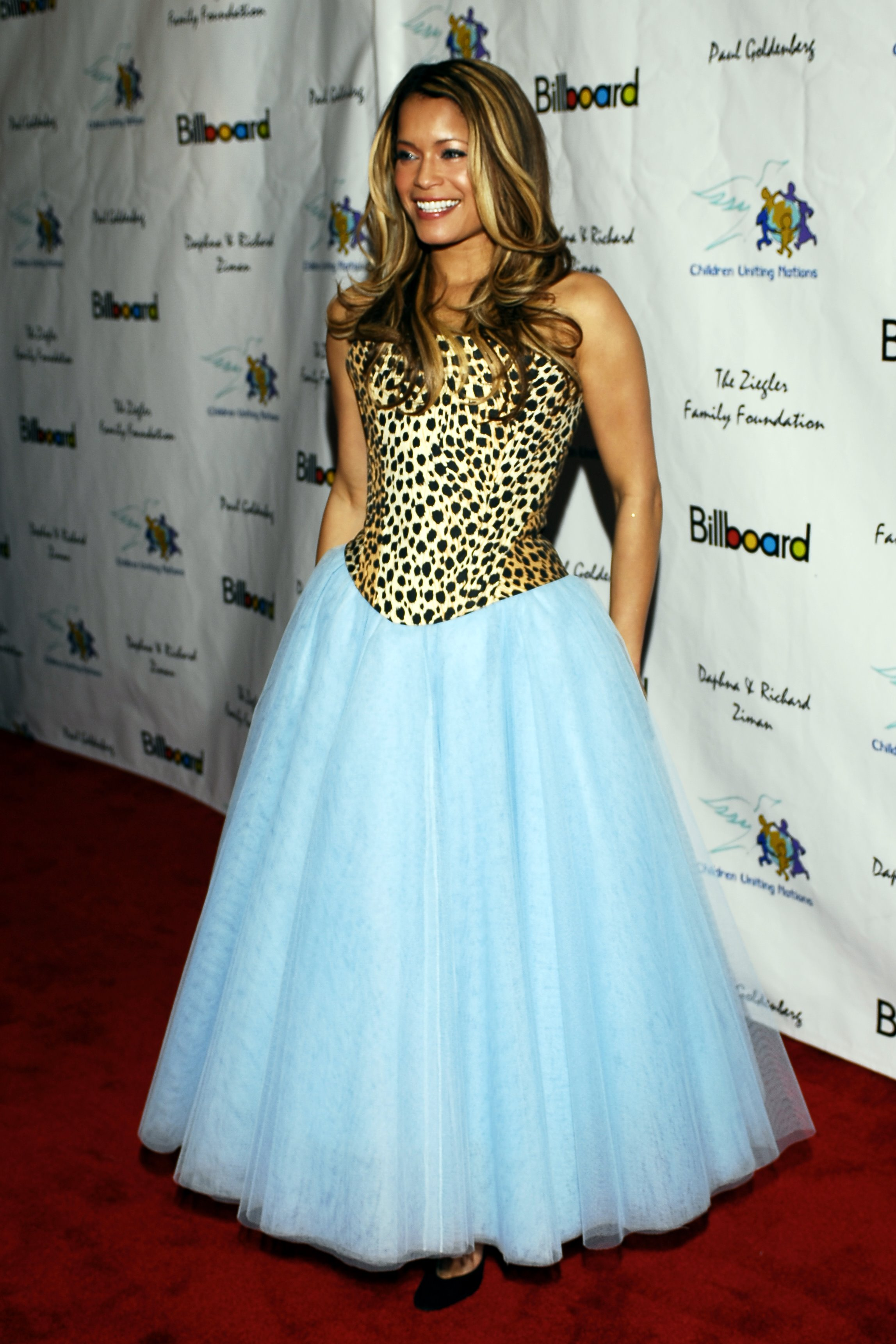 Blu Cantrell at the 79th Annual Academy Awards Children Uniting Nations/Billboard afterparty.